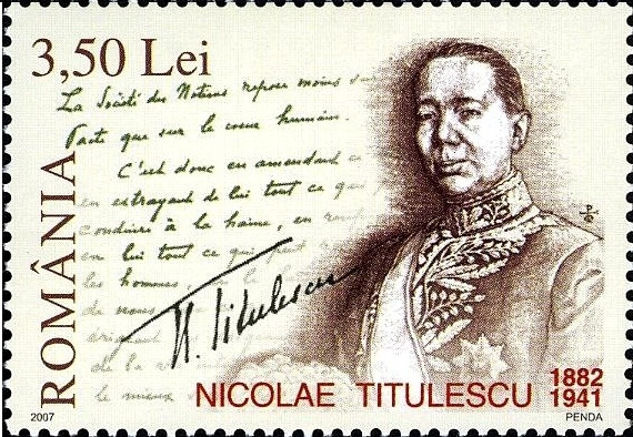 Nicolae Titulescu. Romania stamp.